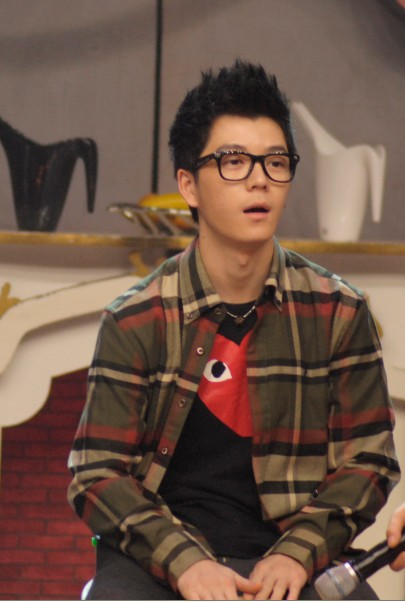 Wang Yuexin, Chinese male singer.